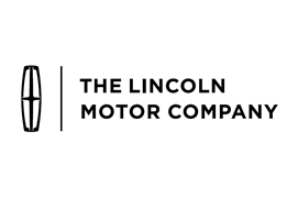 The logo of the “Lincoln Motor Company”.